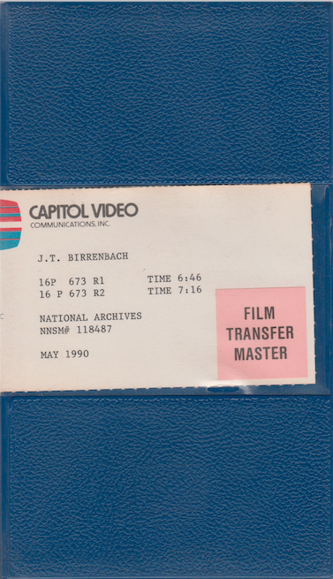 This is a scan of the cover of the case the film Hemp For Victory was delivered in.